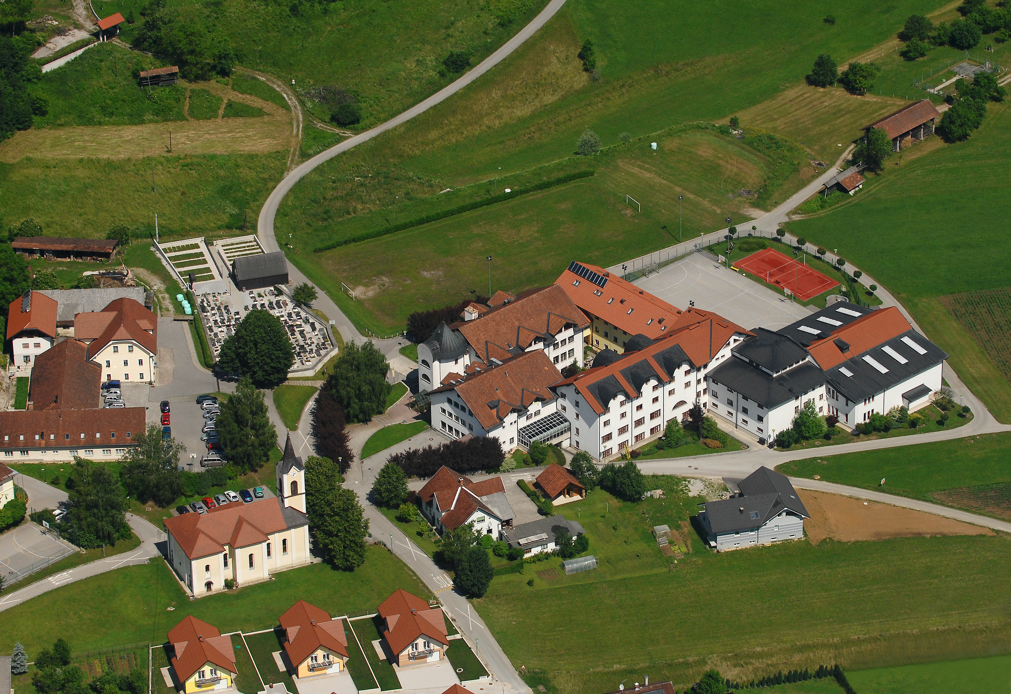 Gimnazija Zelimlje, Zavod sv. Franciska Saleskega, Zelimlje